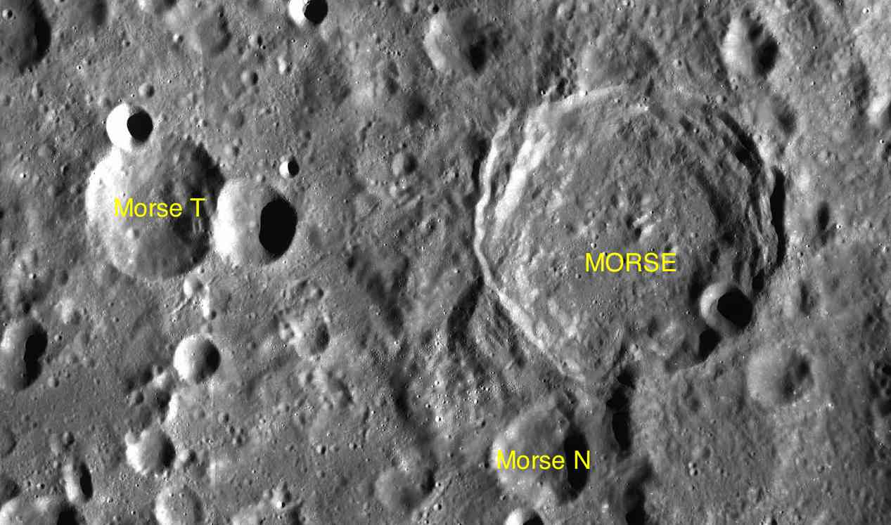 Part of the chart LAC-50 used for the presentation